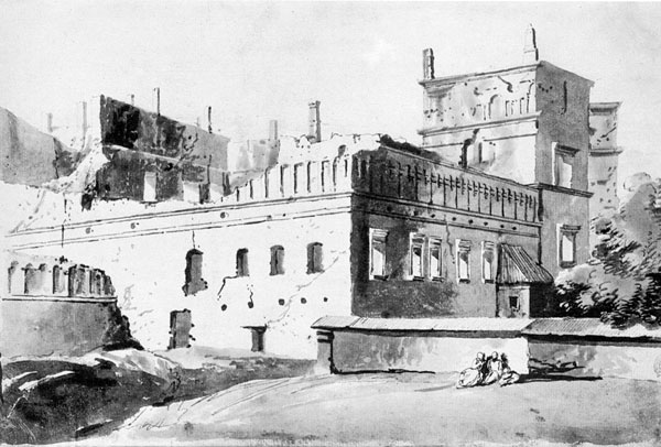 Drawing of Royal Palace of Vilnius in XVIIIc, Lithuania.